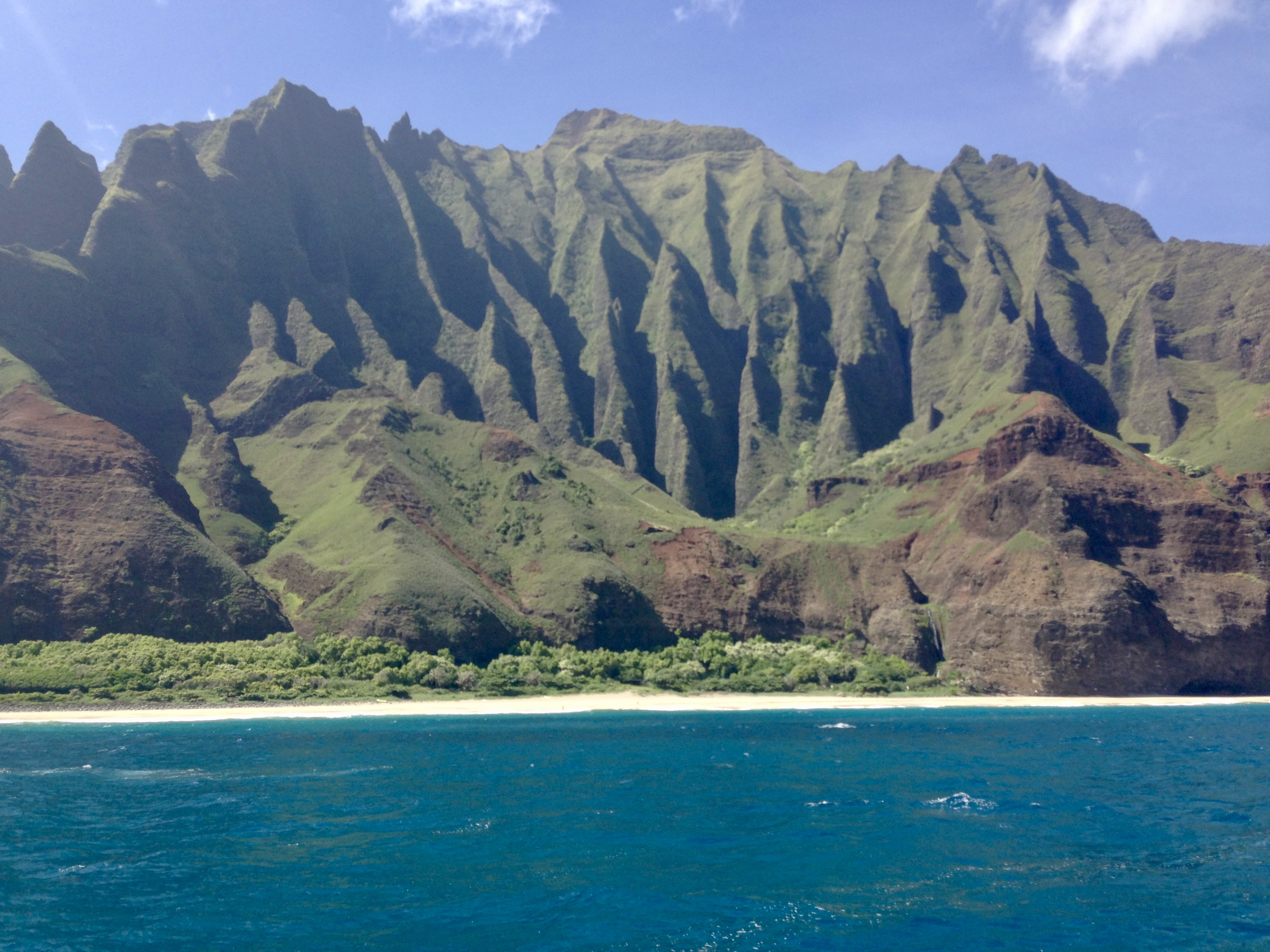 This is a picture of the Na Pali Coastline from the perspective of a person standing on a boat.